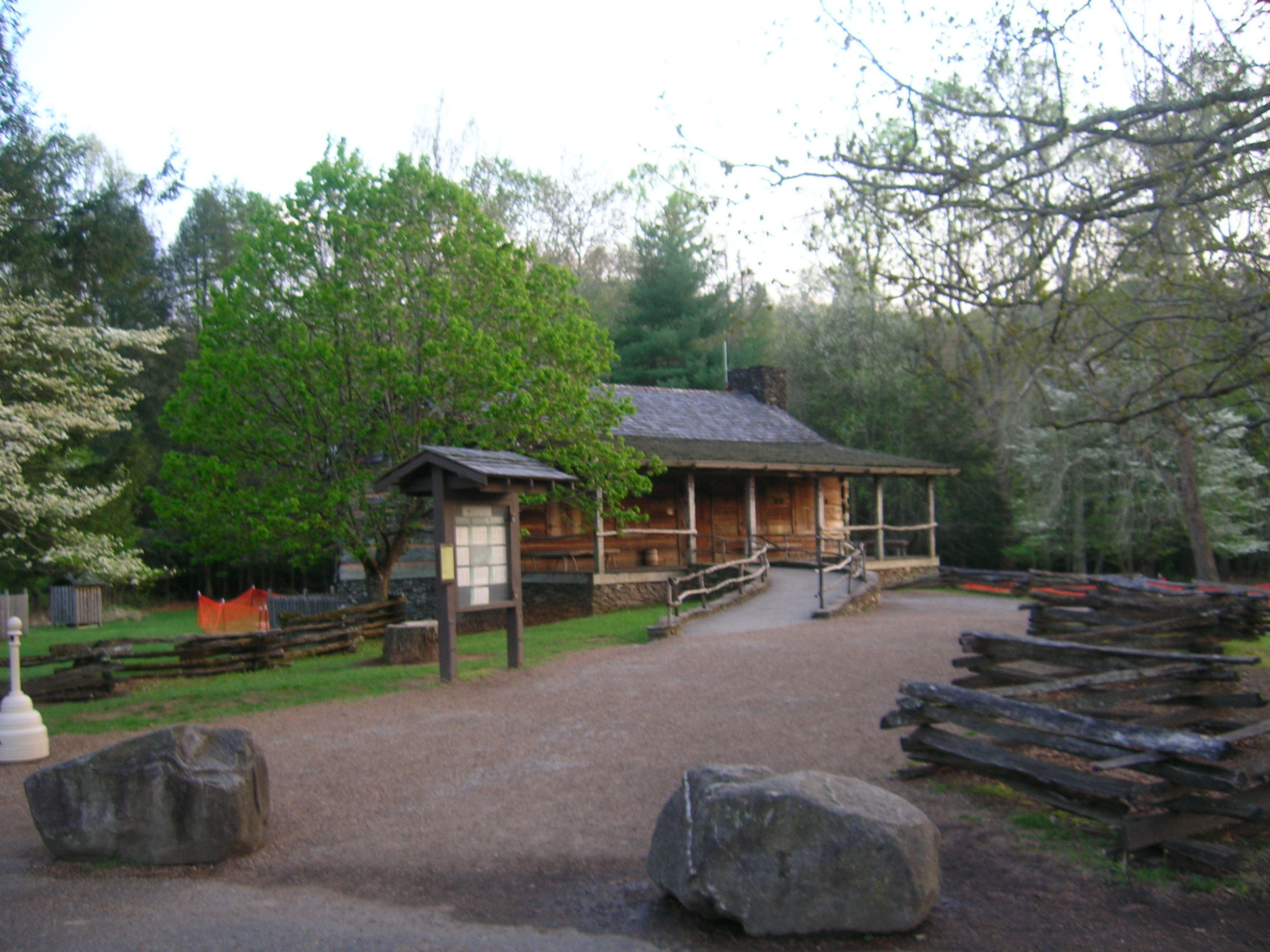 Cade's Cove, the most popular destination in the most popular national park in the United States (the Great Smoky Mountains National Park), services tourists via an information center located just over halfway along the scenic one-way loop road which traverses much of the valley. Photo taken by myself, Scott Basford, in April of 2006.